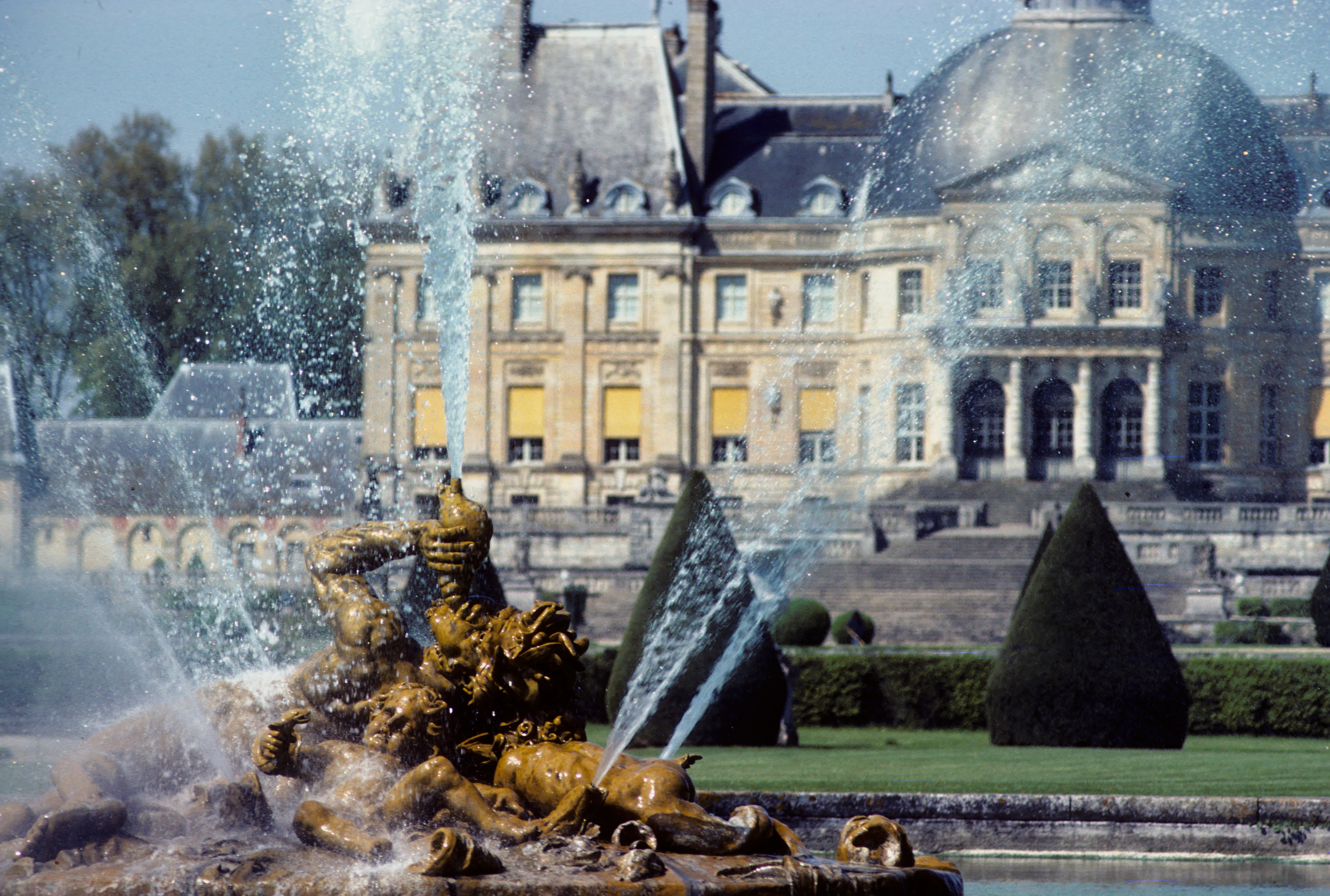 Fountain in gardens of Vaux-le-Vicomte, with chateau in background